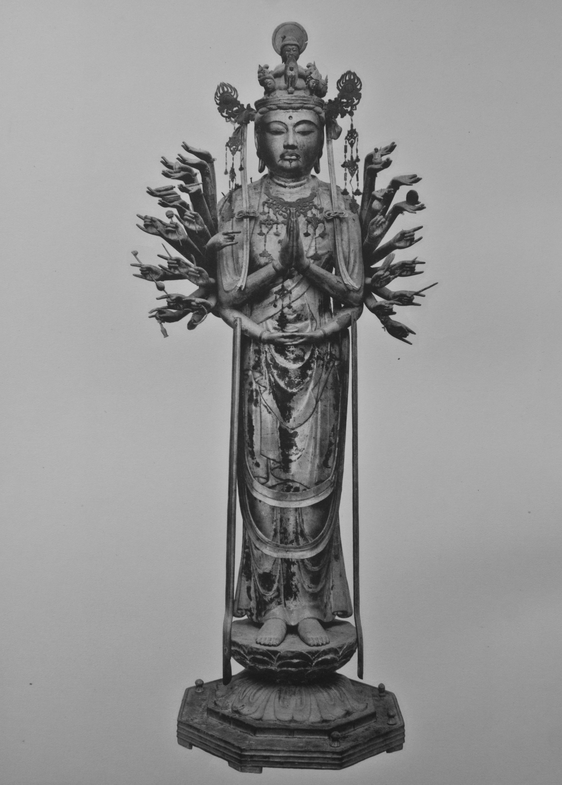 Sanjusangendo, Kyoto, Japan